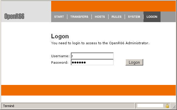 Waarp R66 Administrator home page(login)